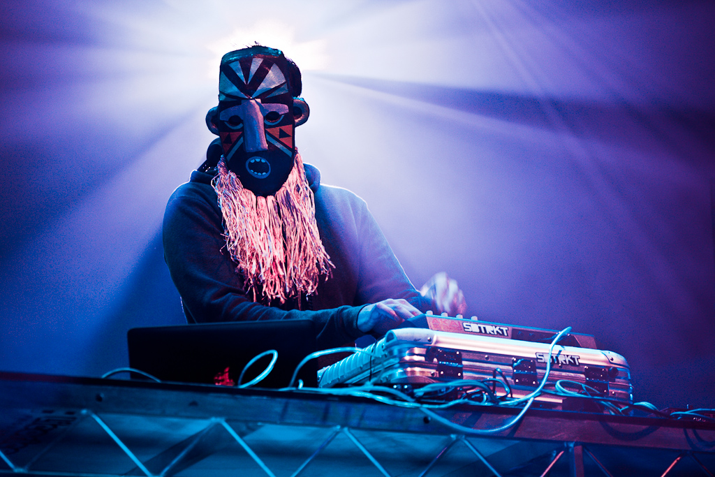 SBTRKT live at Musica festival, Sydney